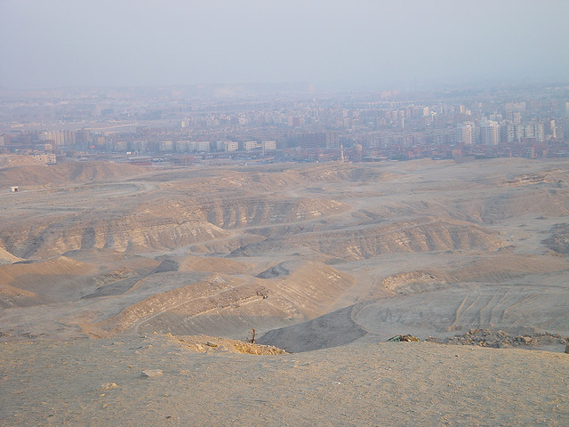 A view of Cairo from Al Mokattam Mountain